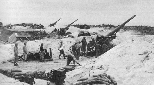 155mm guns of the 420th Field Artillery Group are set up on Keise Shima to shell enemy main defenses prior to the Tenth Army assault landing. (USA SC205503).